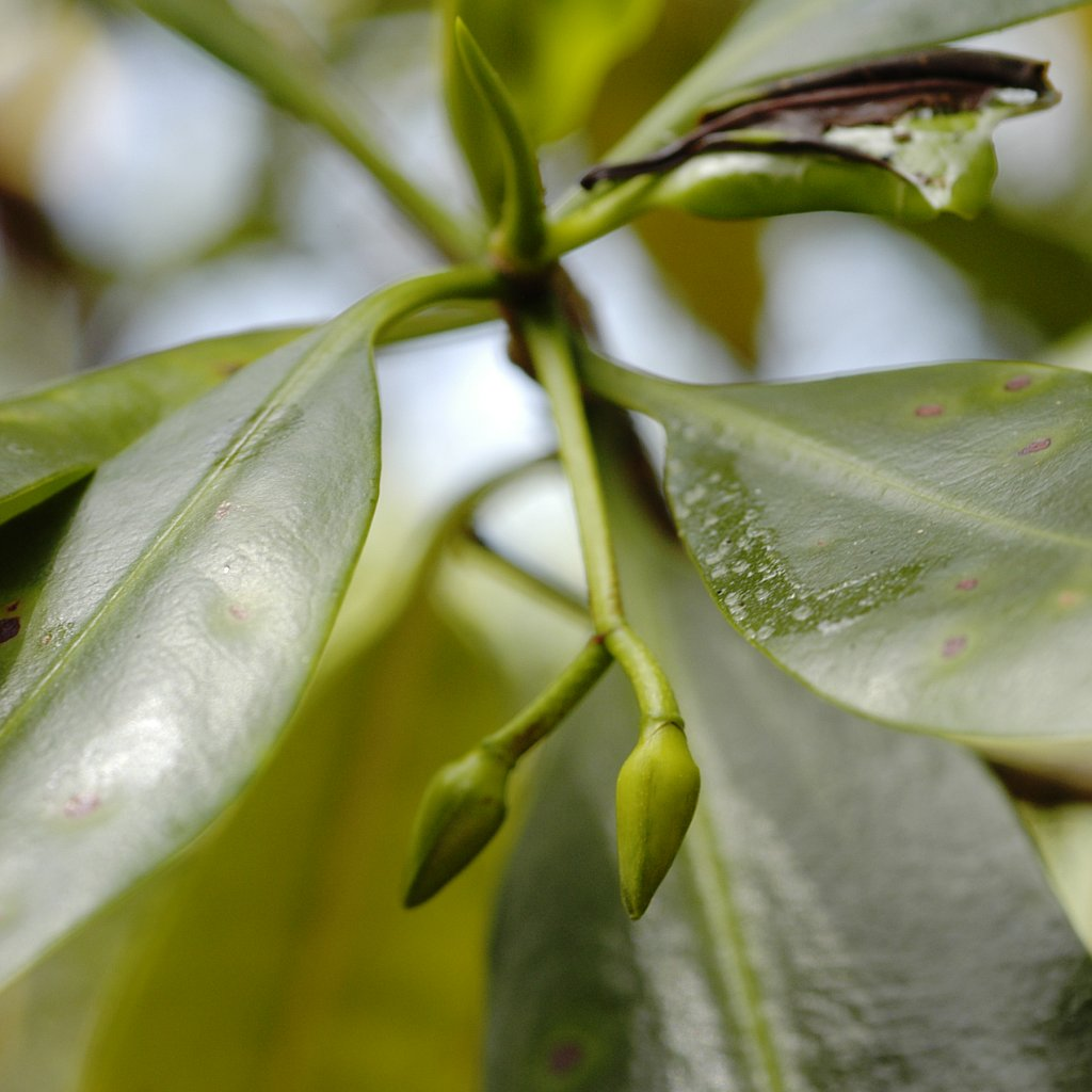 Flower buds of the Red Mangrove (Rhizophora mangle), mangrove forest on Ajuruteua peninsula, Bragança, Pará, Brazil *